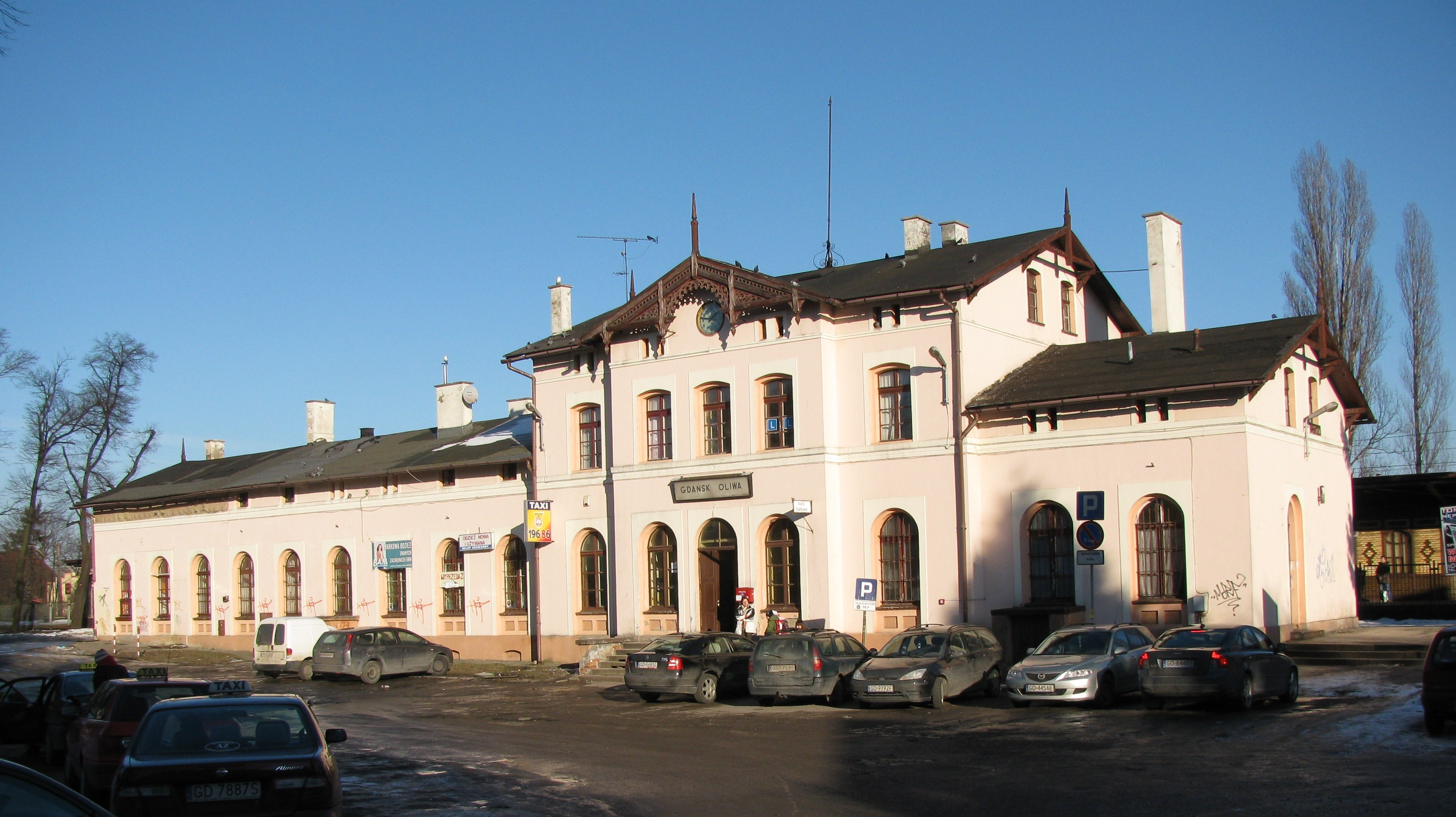 The railway station in Gdańsk Oliwa (Poland).